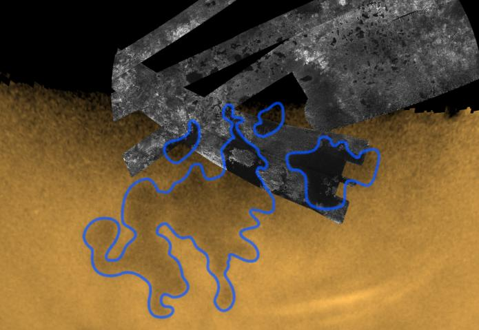 Radar image of a large sea on Titan. This image blends a near natural-color view with imagery collected by the radar instrument aboard Cassini, for a dramatic reveal of the north pole of Saturn's largest moon.